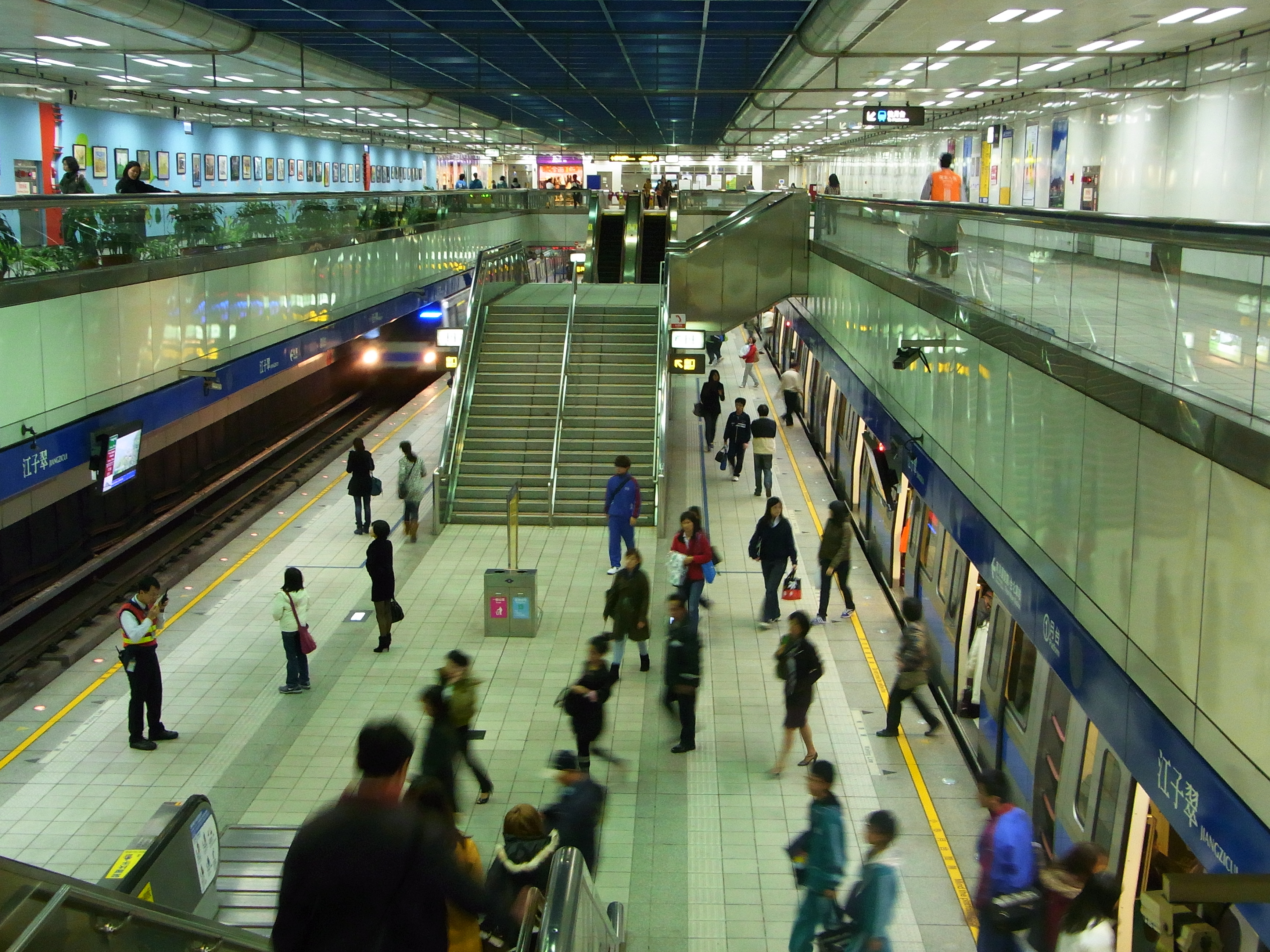 Taipei Metro Jiangzicui Station Platform中文（台灣）: 台北捷運江子翠站月台